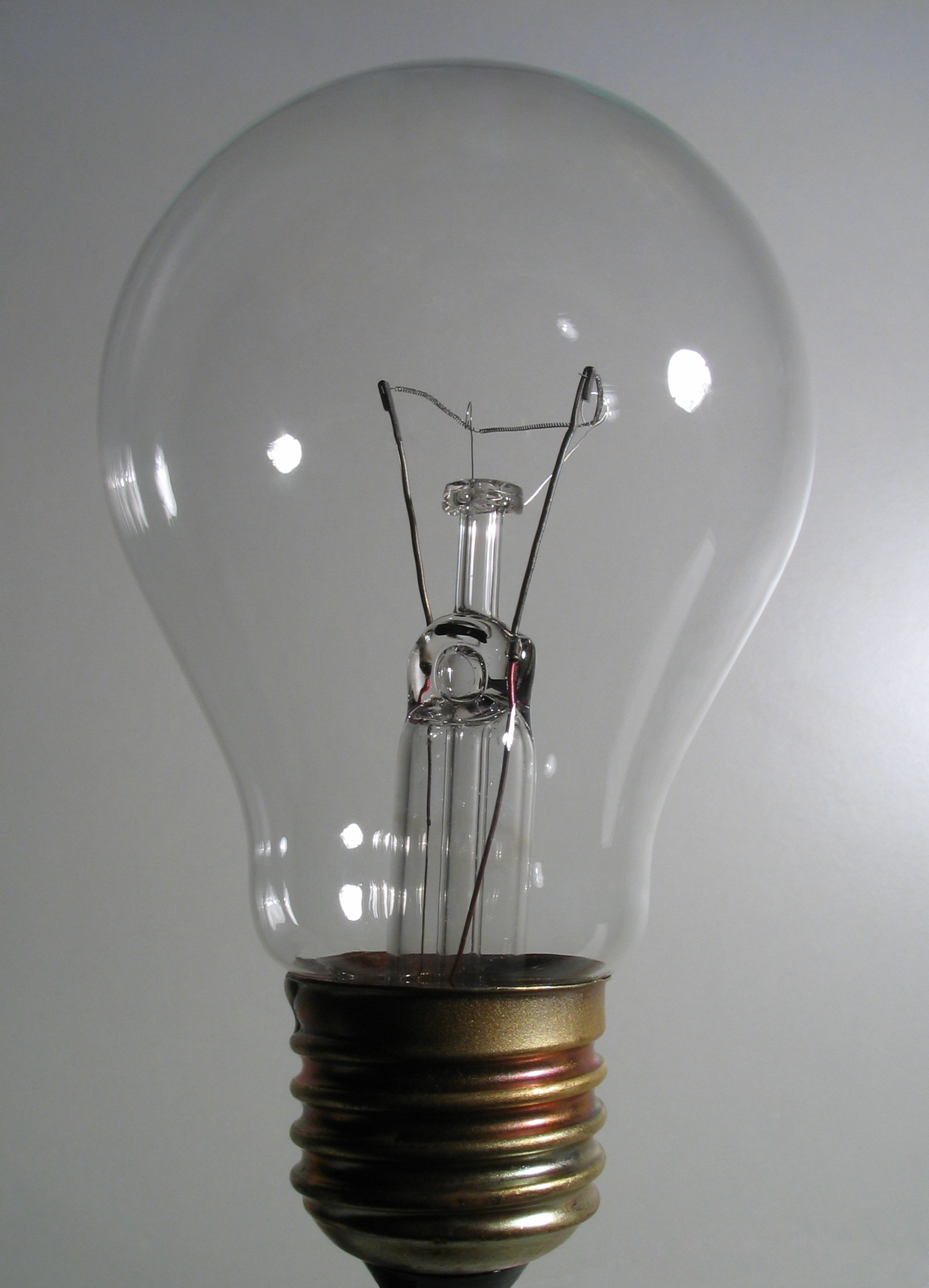 Light bulb.